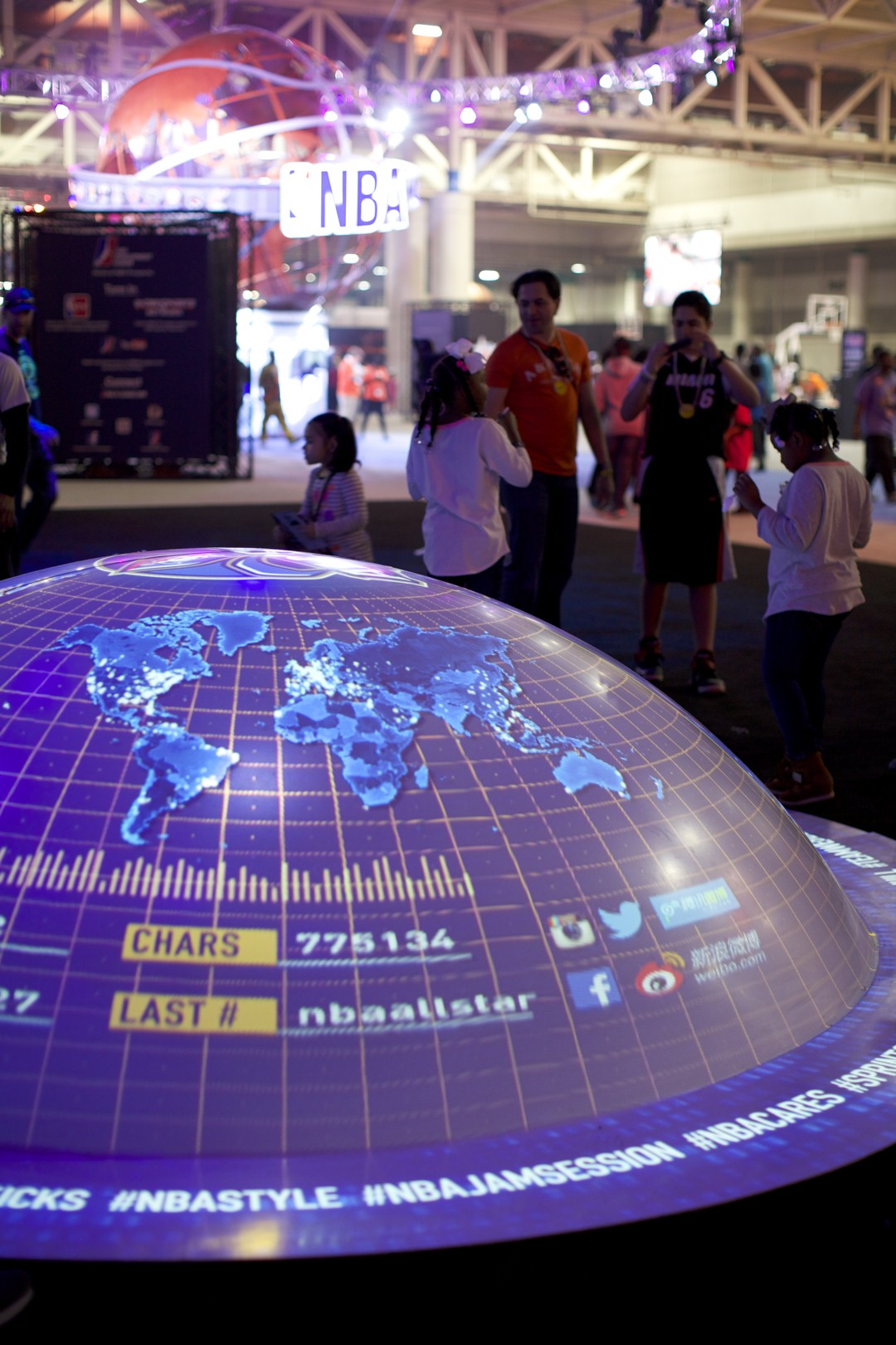 A set of interactive installations for the Jam Session in New Orleans